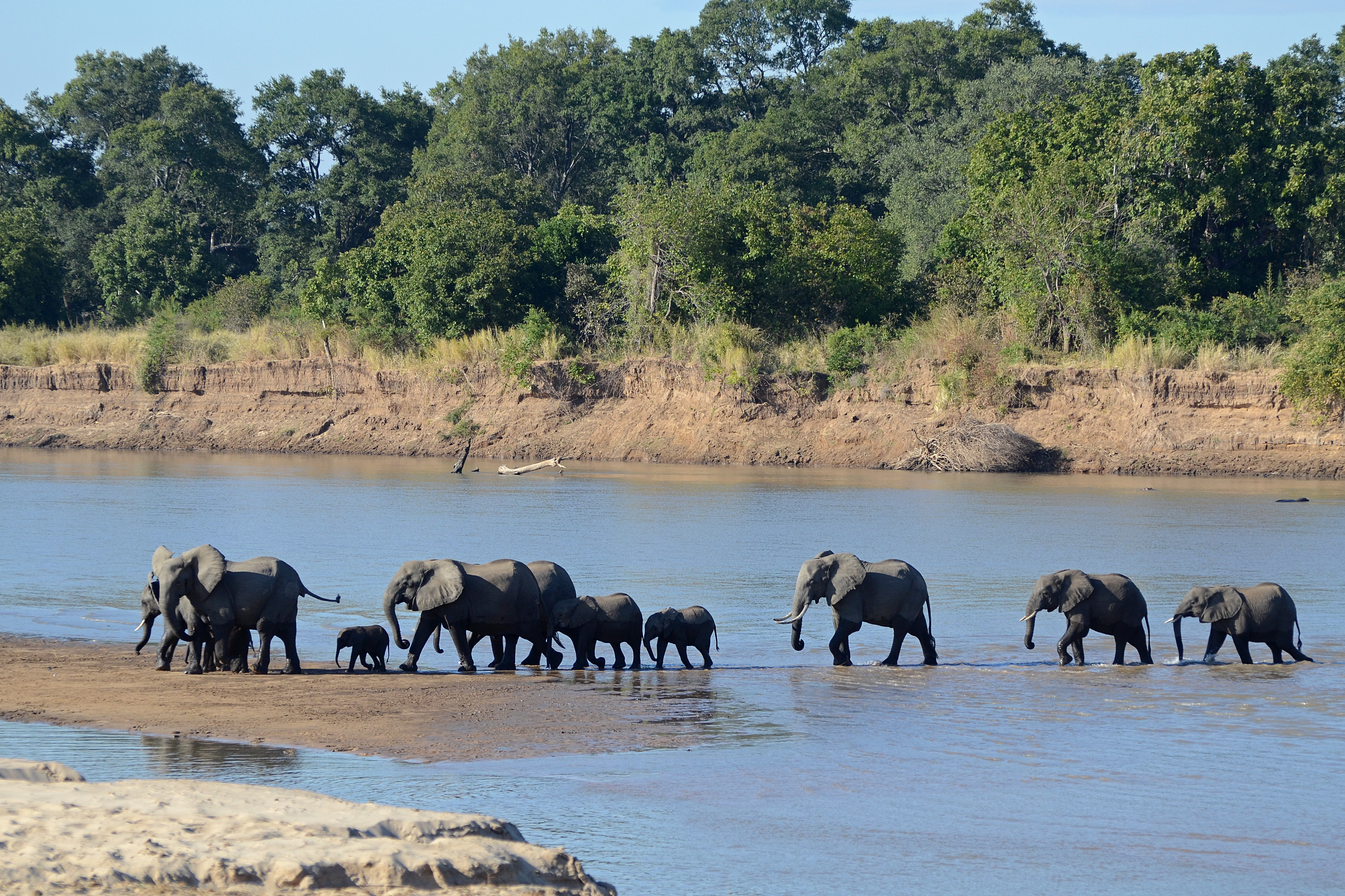 Elephantidae: Loxodonta africana. South Luangwa National Park, Zambia